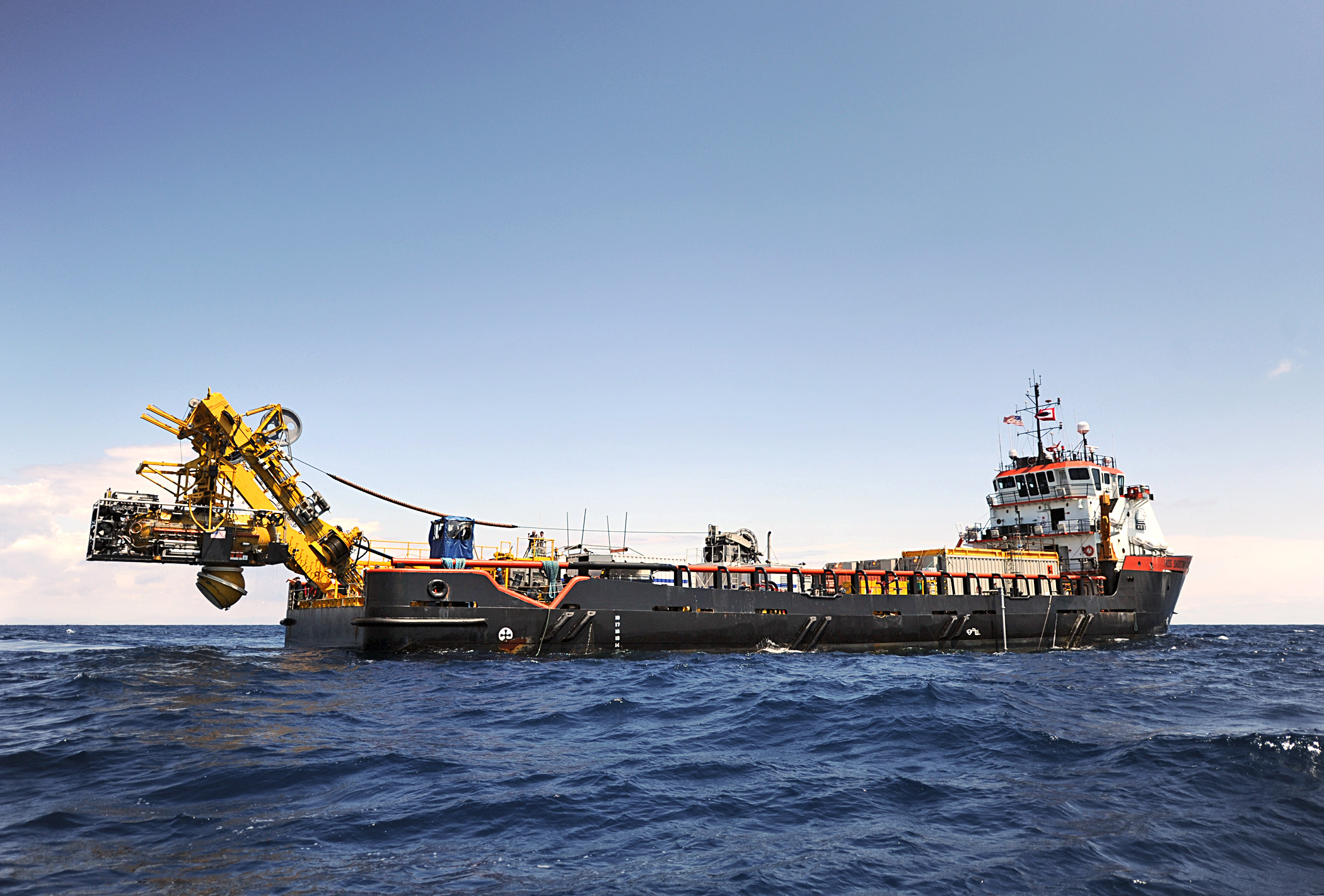 MEDITERRANEAN SEA (June 3, 2011) The New Breed offshore supply vessel HOS Shooting Star uses dynamic positioning to maintain its position while performing underwater rescue exercises. Participants and observers from more than 25 countries are taking part in NATO exercise Bold Monarch 2011, the world's largest submarine rescue exercise. This 12-day exercise supports interoperability between all submarine rescue units.